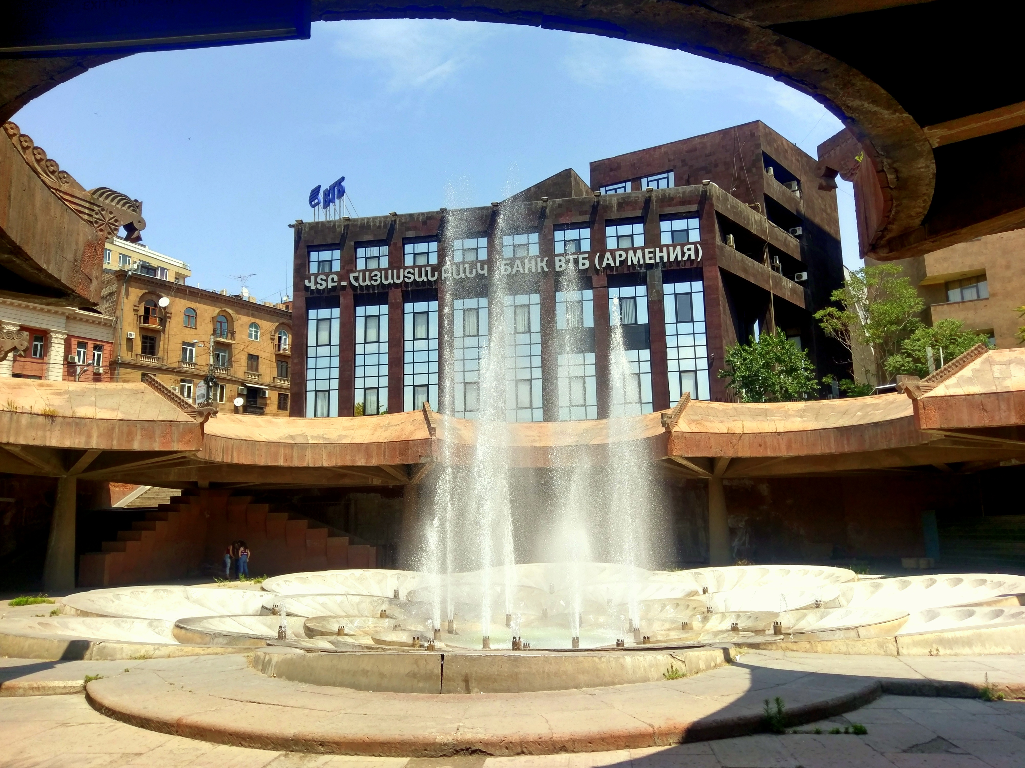 VTB Bank Armenia, Yerevan.